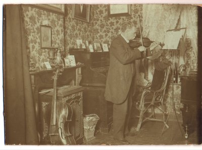 Picture of Dutch composer Gerhard Hamm